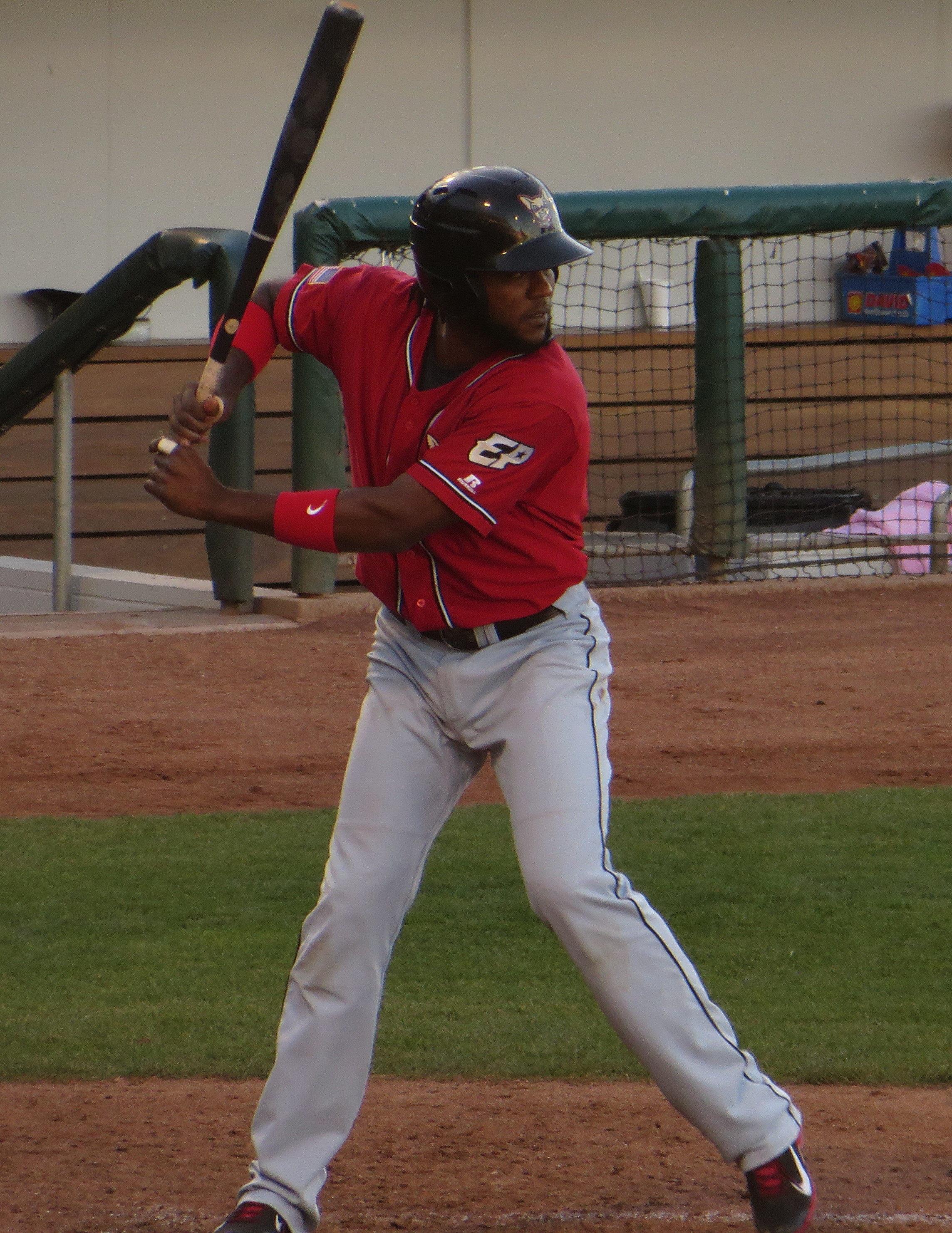 Hector Gomez bats for the El Paso Chihuahuas during a 2015 game against the Reno Aces at Greater Nevada Field in Reno, Nevada.